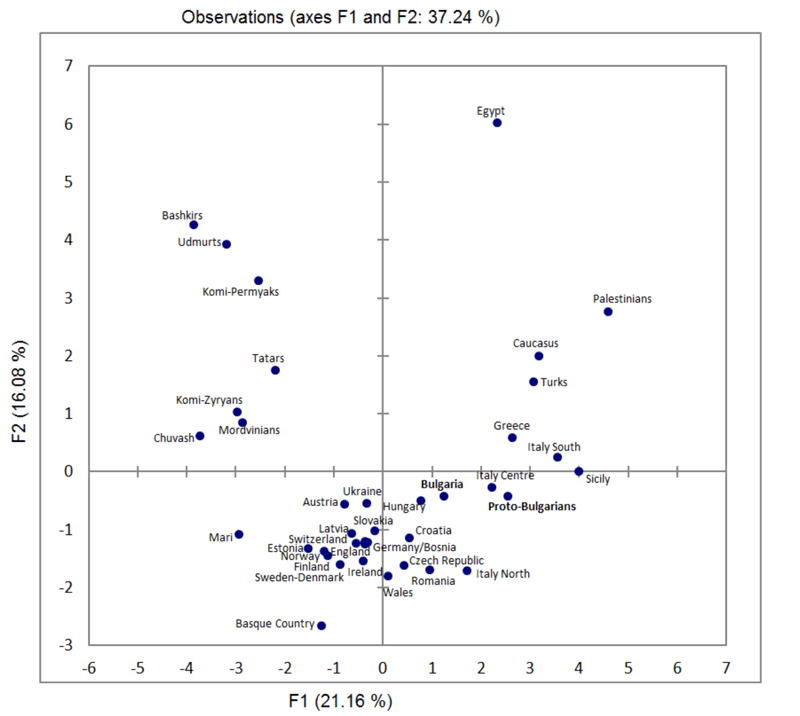 Genetic studies on Bulgars/Proto-Bulgarians